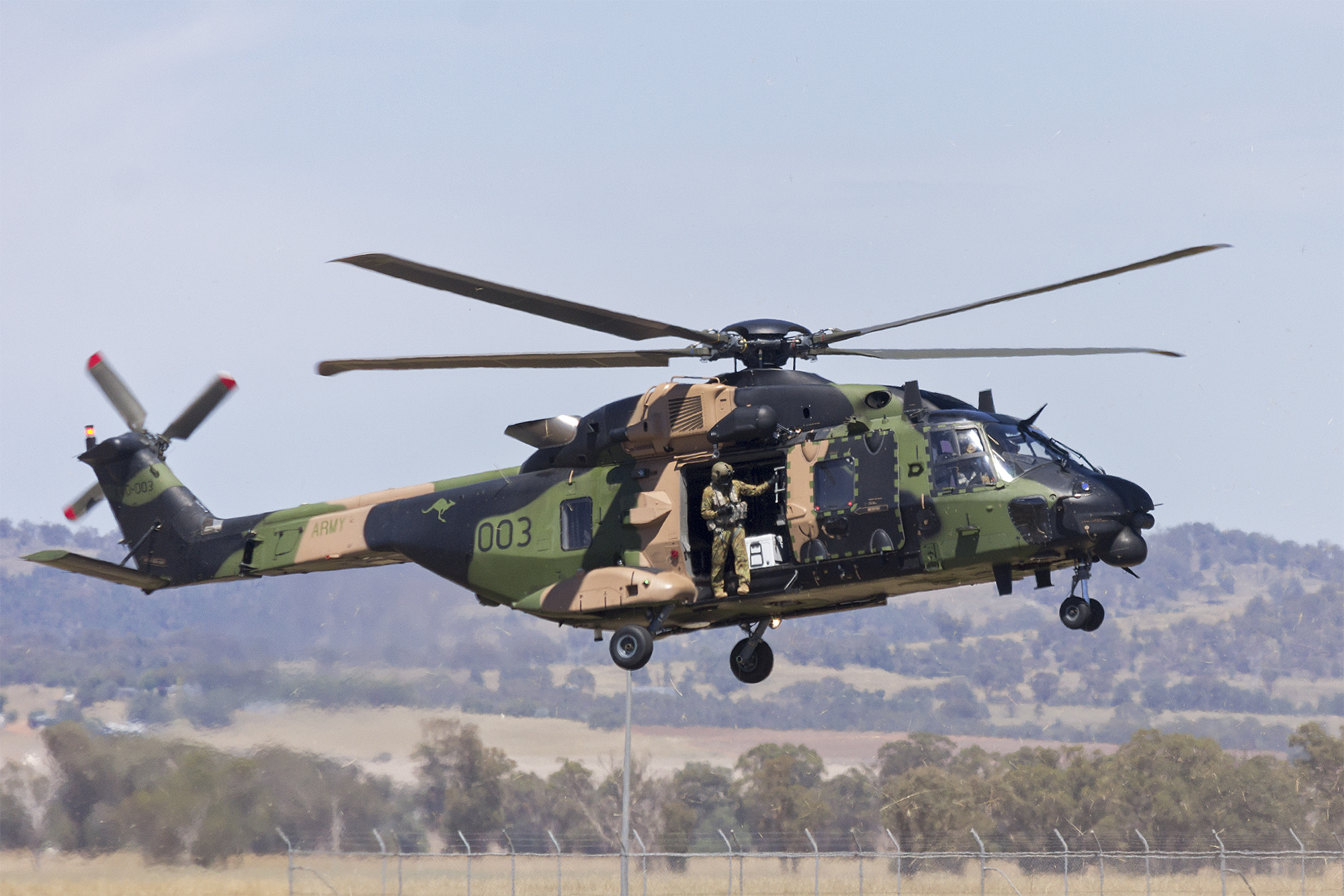 Australian Army (A40-003) NHI MRH-90 arriving at Wagga Wagga Airport.